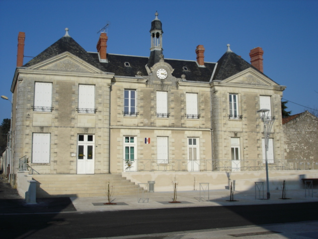 Town hall of Courcoué (Indre-Loire, region Centre, in France)